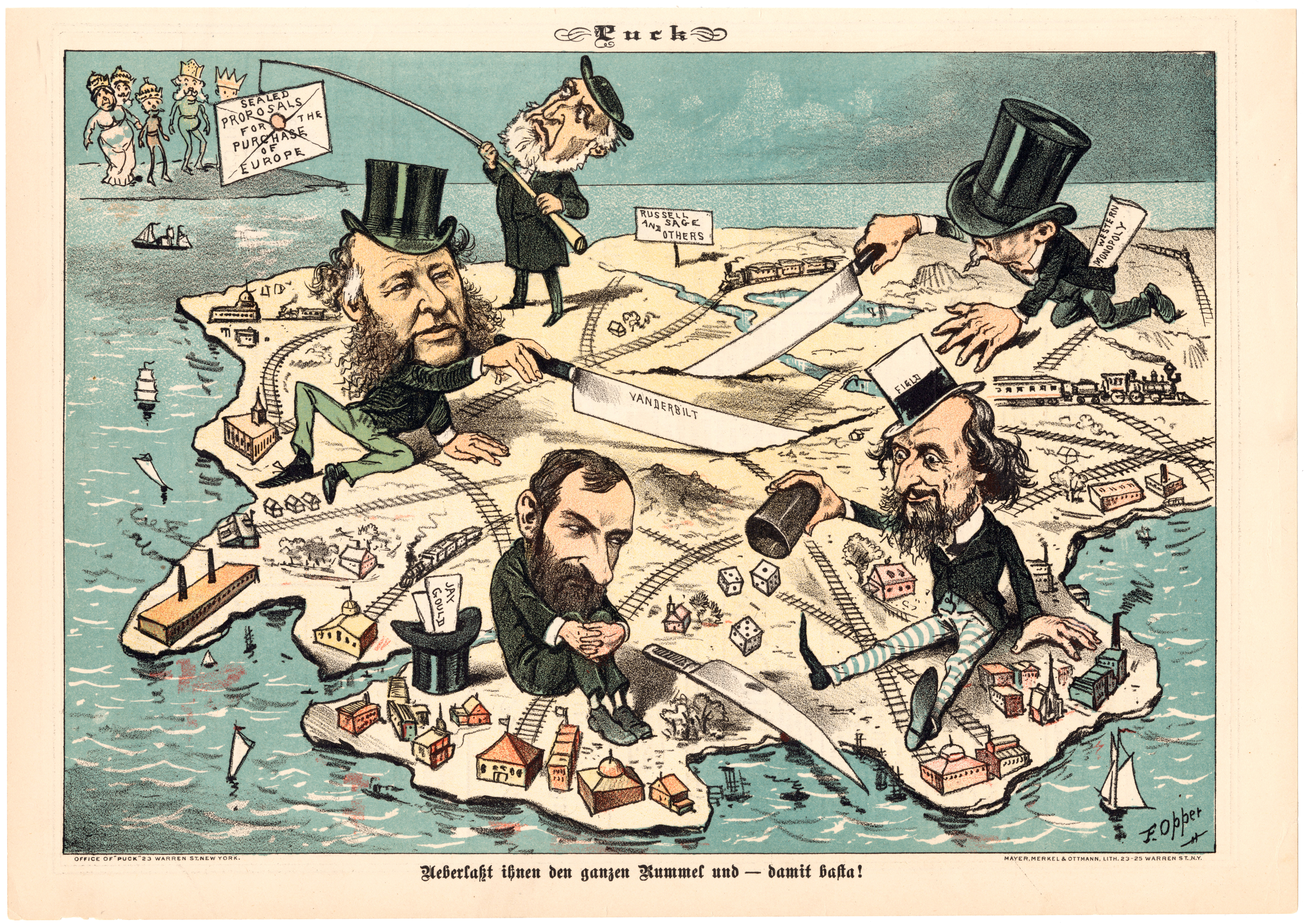 A satirical cartoon from the German language edition of Puck Magazine, critical of those who are carving up the country for their own benefit.